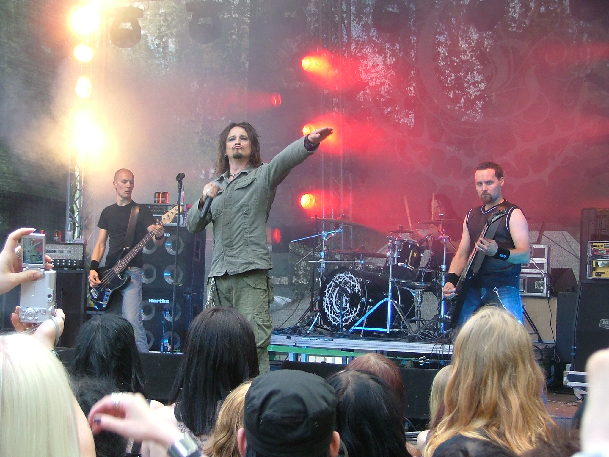 Finnish gothic metal band Entwine in Kuopio at Rockcock-musicfestival